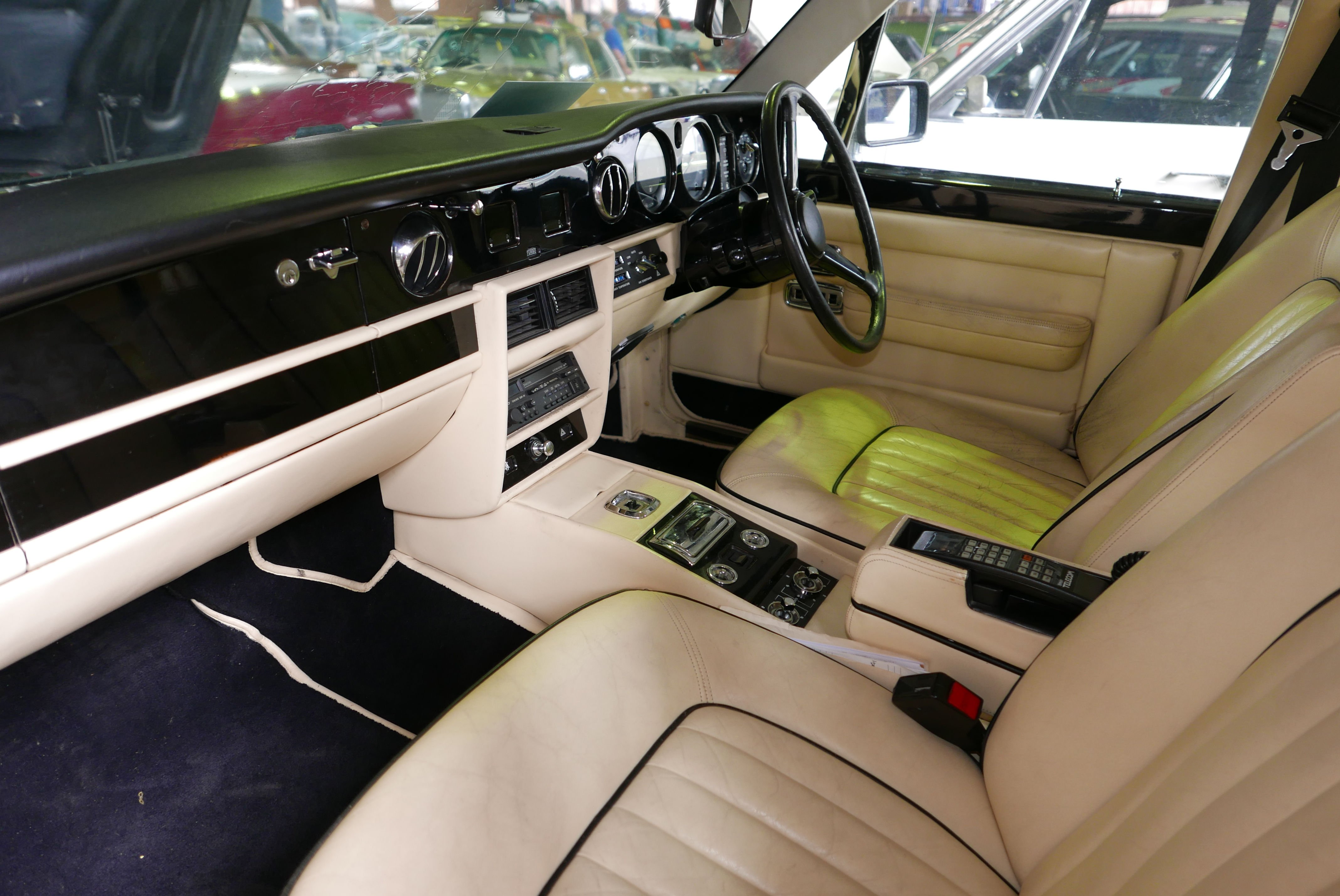 1985 Bentley Mulsanne Turbo sedan. Photographed at the Geelong Museum of Motoring and Industry, North Geelong, Victoria, Australia. This car has been upgraded with armour modifications for the safety of occupants. According to the "Order Amendment" document displayed with the car, it was first sold in the United Kingdom by Jack Barclay Limited to Sheikh M A Bin Khalifa Al-Thani of the Embassy of the State of Qatar, 27 Chesham Place, London, SW1. The order number is listed as "3542 BT", the chassis number as "BTH 12643", and the document is dated 9 April 1985.